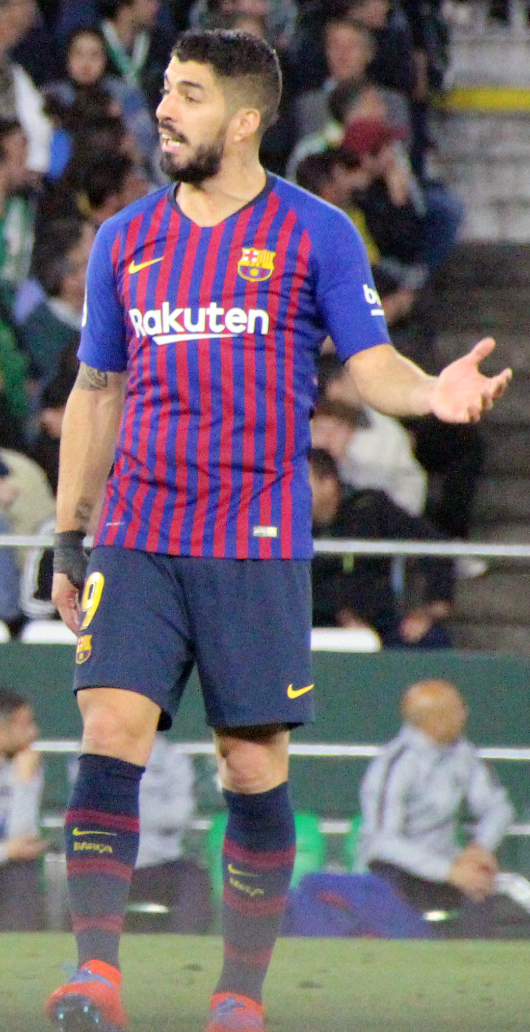 Luis Suarez playing for FC Barcelona vs Real Betis, 17/03/2019